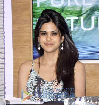 Aditi Pohankar graces the launch of Doycare in Lower Parel, Mumbai